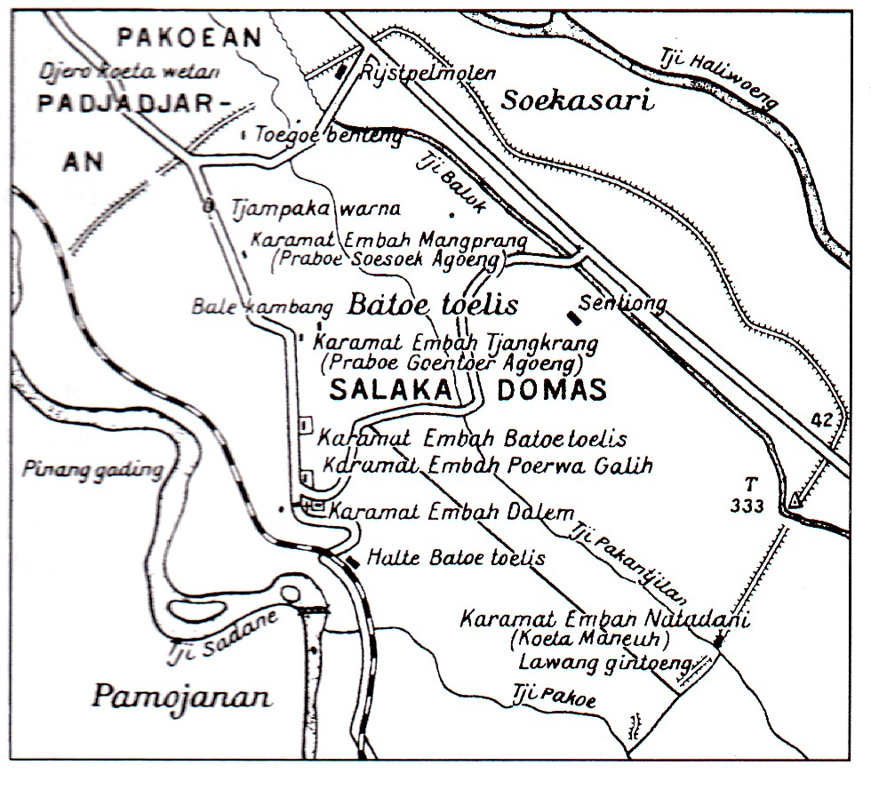 Old Dutch map showing the location of Pakuan, the ancient capital of the Sundanese kingdom of Pajajaran, near Bogor city in West Java